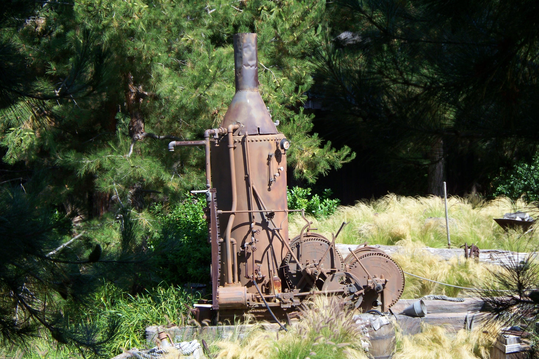 19th century "steam donkey" steam engine on display at Disney's California Adventure theme park, Anaheim, California USA